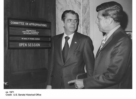 U.S. Senator Gale McGee (D-WY), Chairman of the Agriculture, Environmental and Consumer Protection Appropriations Subcommittee, and U.S. Secretary of Agriculture Clifford Hardin, 1971